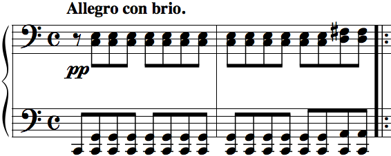 Opening motif from Ludwig van Beethoven's 1804 Piano Sonata No. 21, the Waldstein